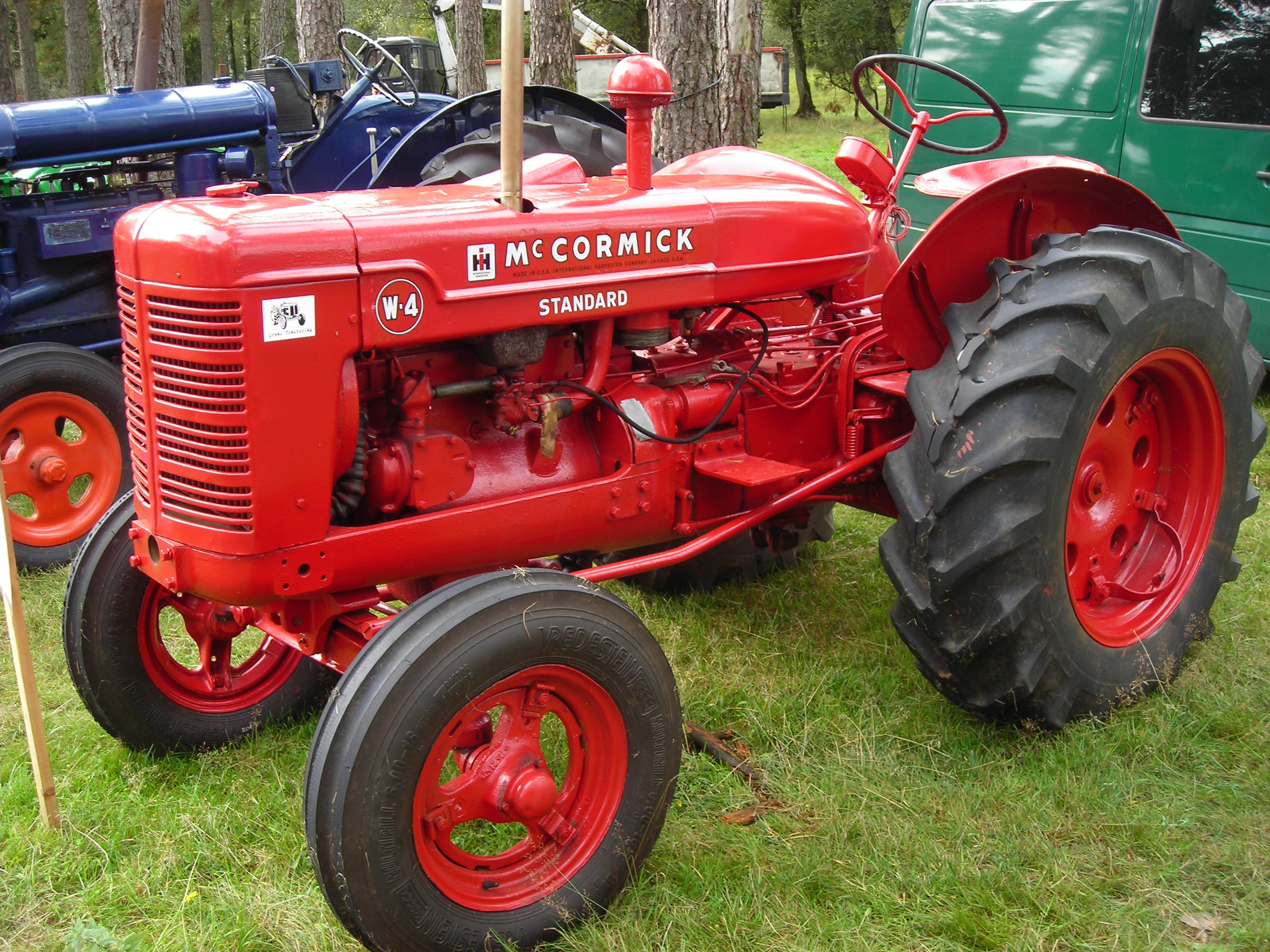 An International Harvester model W4 WBH 17845 W3 from 1947 (McCormick). Photographed at Lyngdal Dyrskue september 2006.